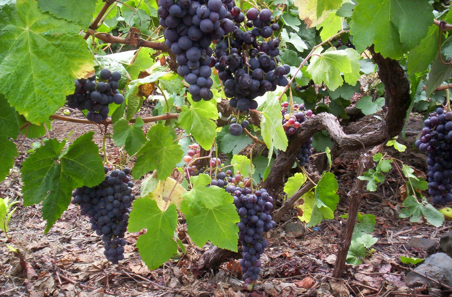 The Spanish wine grape Listan Negro (a.k.a. Listan Prieto or Pais) growing in the Canary Islands